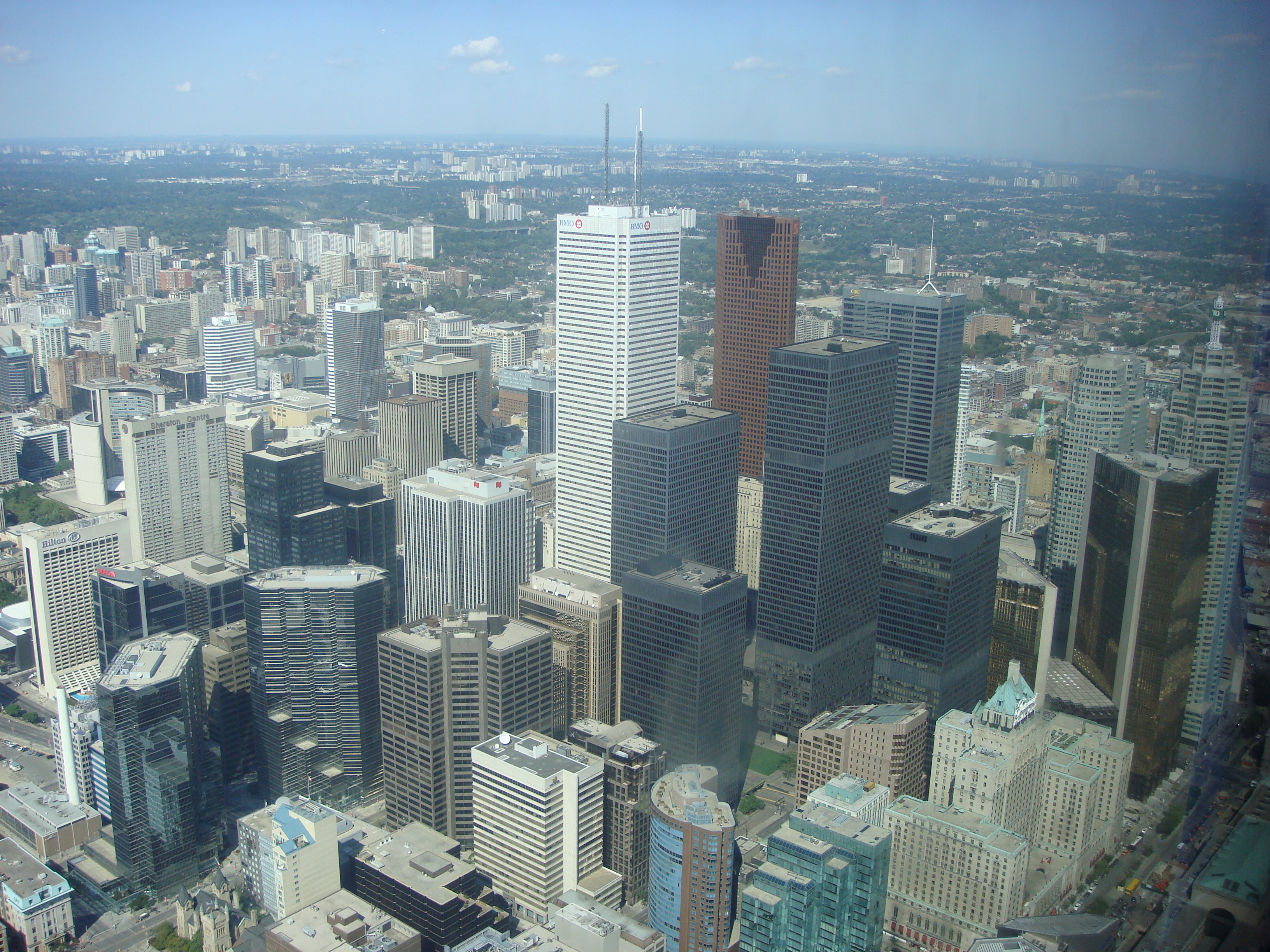 Toronto City (View from CN Tower) Canada